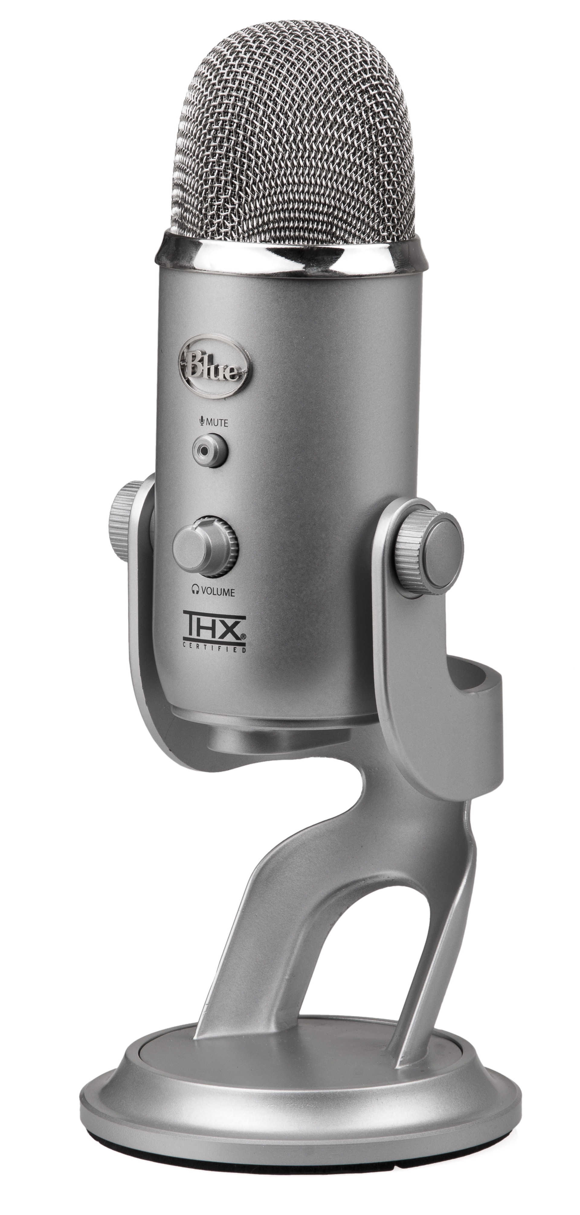 A Yeti brand, USB microphone by Blue Microphones. I giant thing (over a foot tall) that has good sound.